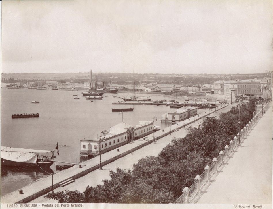 Carlo Brogi (1850-1925) - "Syracuse - View upon the Big Harbour". Catalogue # 12.032.